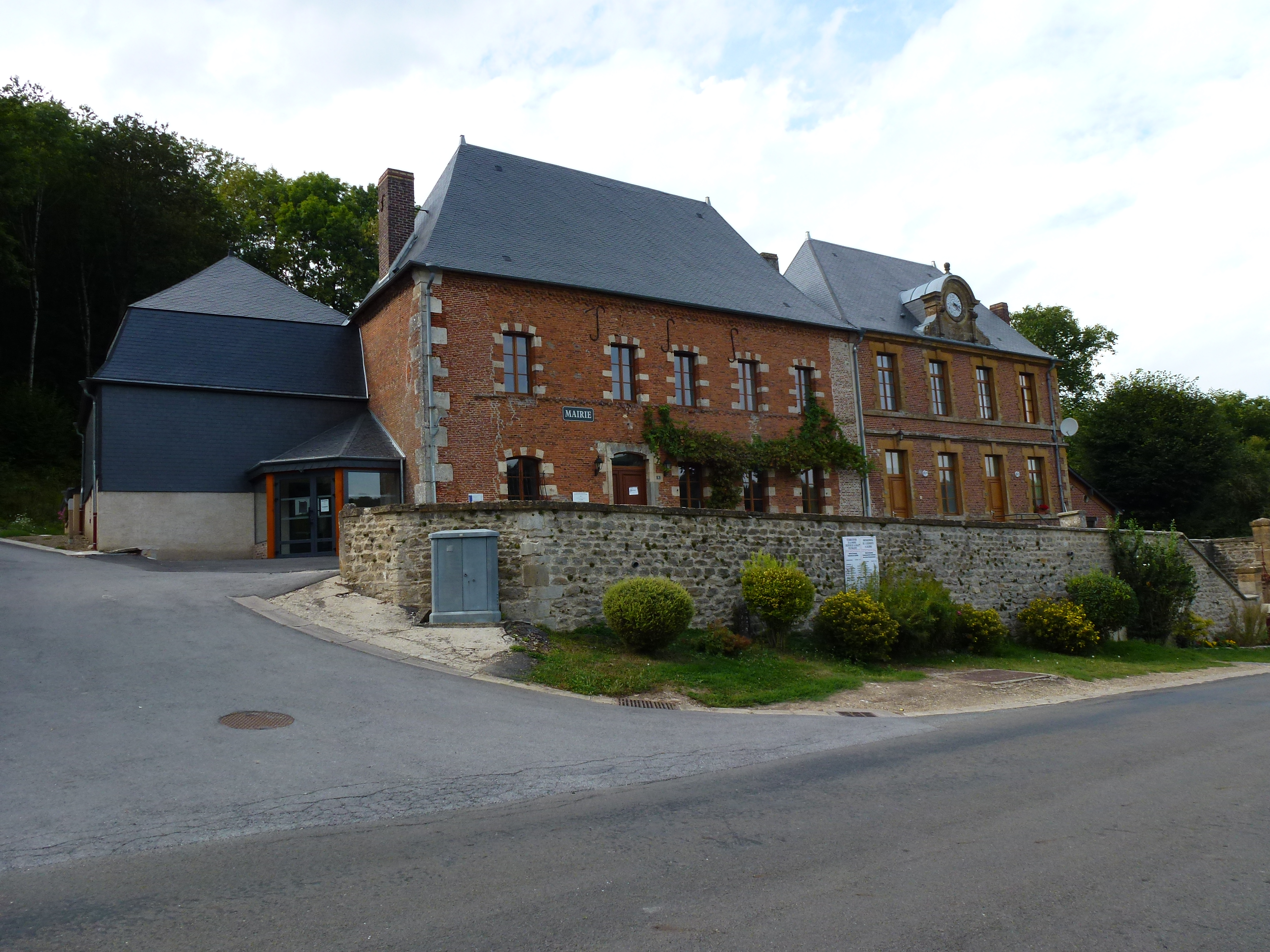 Lalobbe (Ardennes) mairie